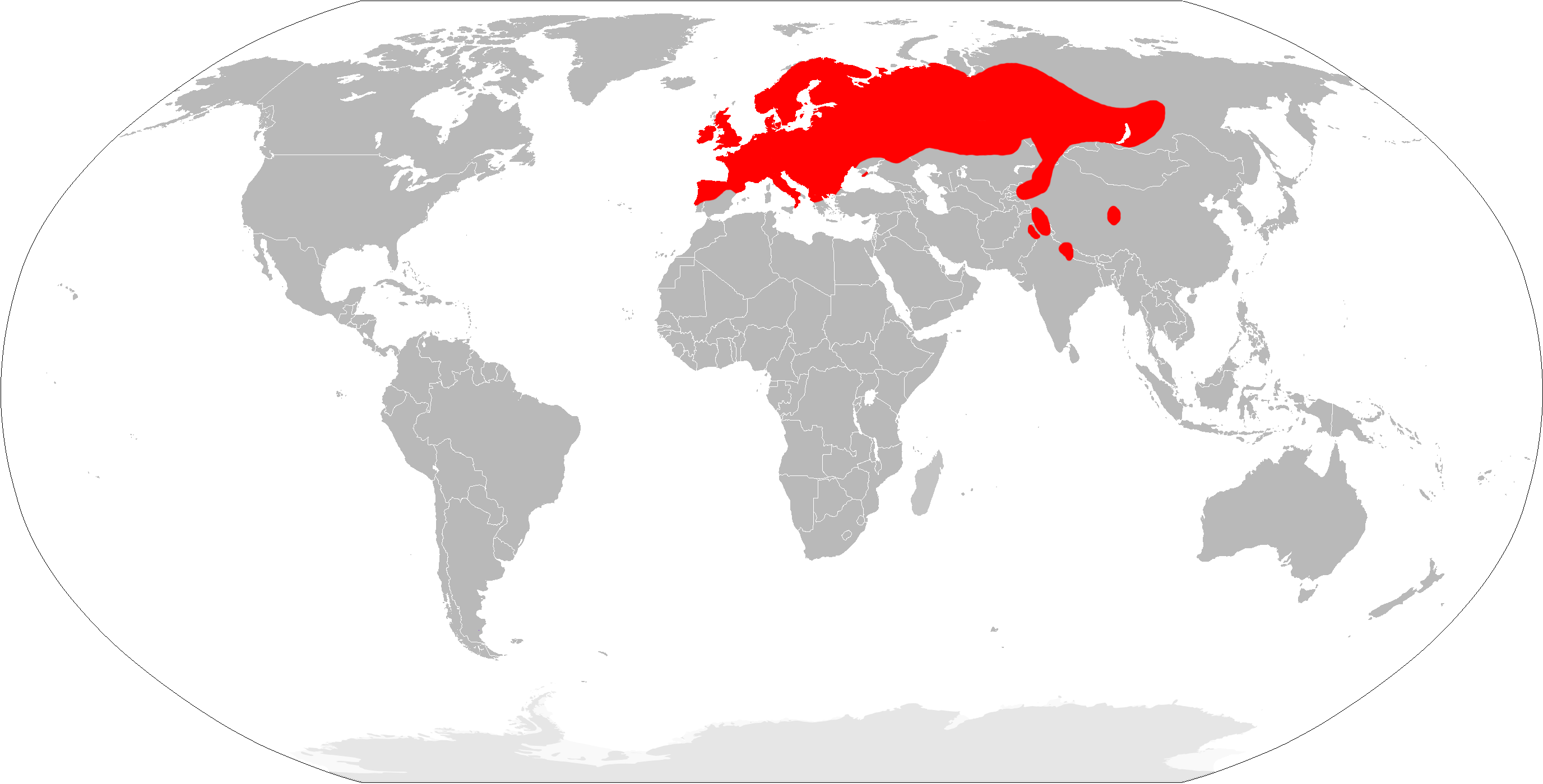 Range map of Sorex minutus.